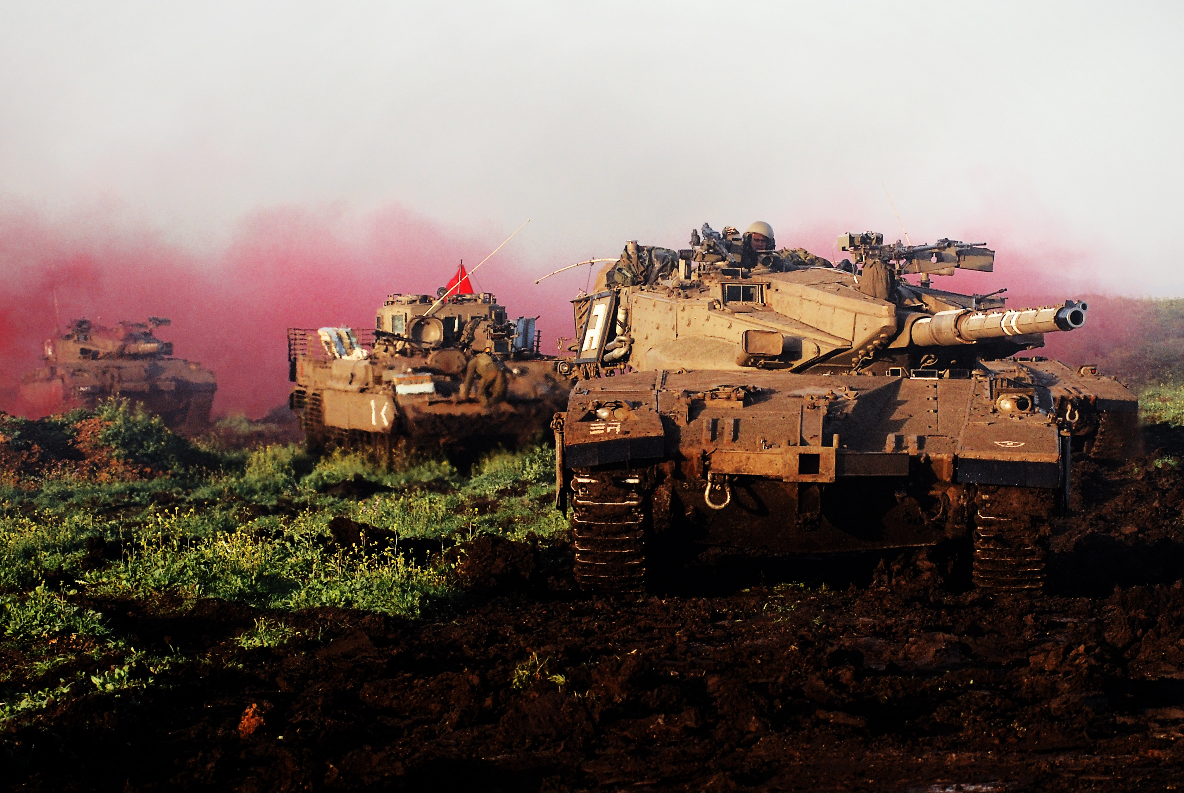 March 12, 2009. The 77th "Oz" Battalion, of the 7th Brigade, concludes a military exercise at the Golan Heights as part of their spring training. The exercise included the use of smoke grenades, hence the red smoke, and was completed successfully. Photo by Michael Shvadron, IDF Spokesperson's Film Unit. גדוד "עוז" מחטיבה 7 בזמן תרגיל גדודי ברמת הגולן. התרגיל כלל שימוש ברימוני עשן, על כן העשן האדום בתמונה, והושלם בהצלחה רבה. צולם על ידי מיכאל שבדרון, יחידת ההסרטה, דובר צה"ל.